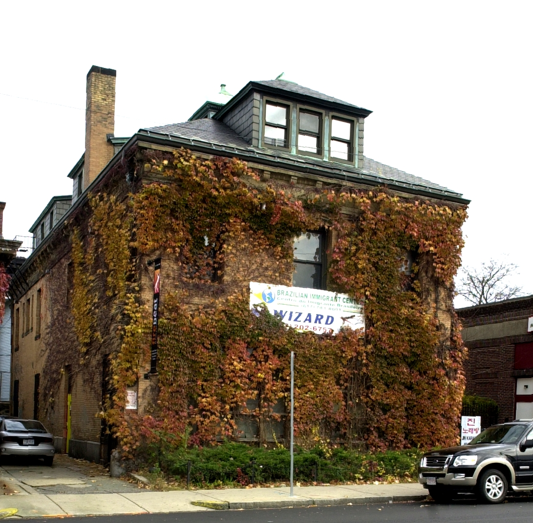 Harvard Avenue Fire Station, Allston (Boston), MA. There are door window/walls filling in the two former doors on the front, mostly hidden under the ivy.